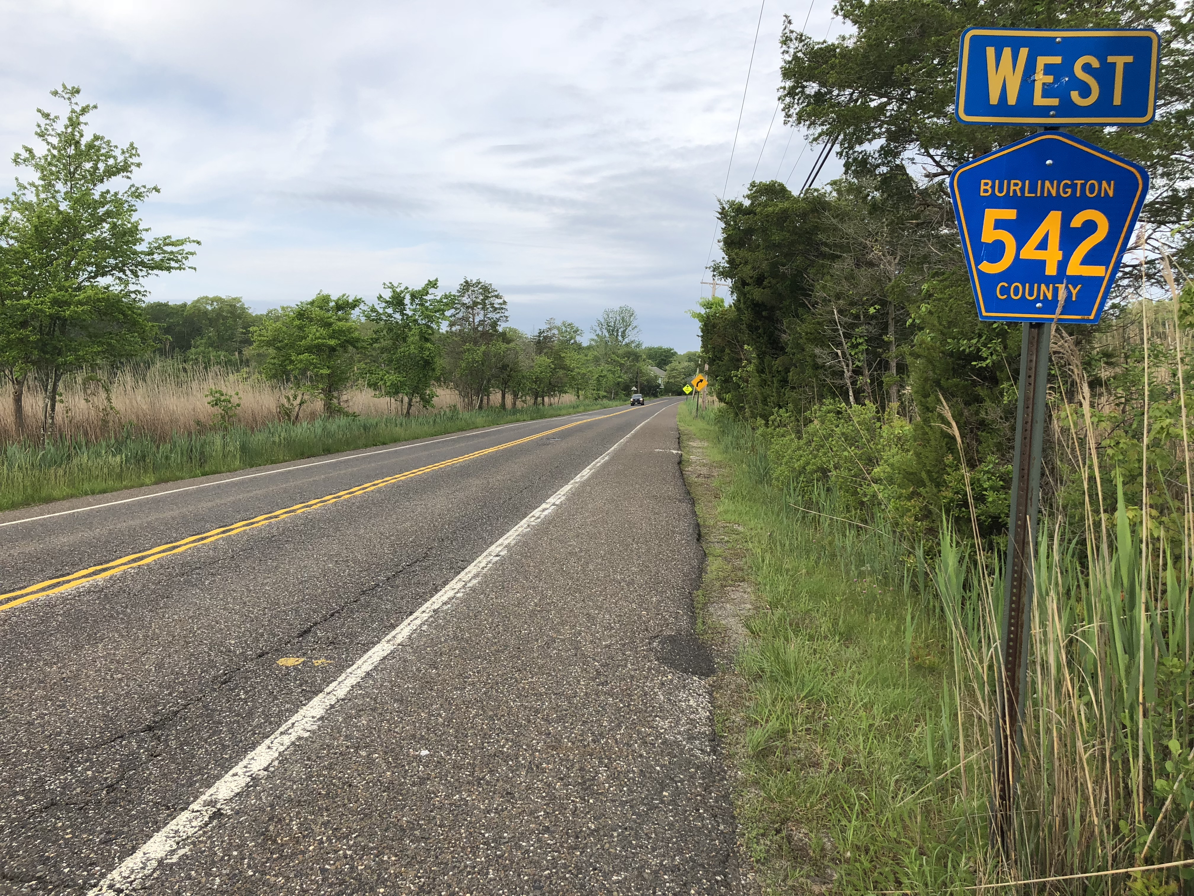 View west along Burlington County Route 542 (Batsto-Bridgeport Road) just west of the Wading River in Washington Township, Burlington County, New Jersey